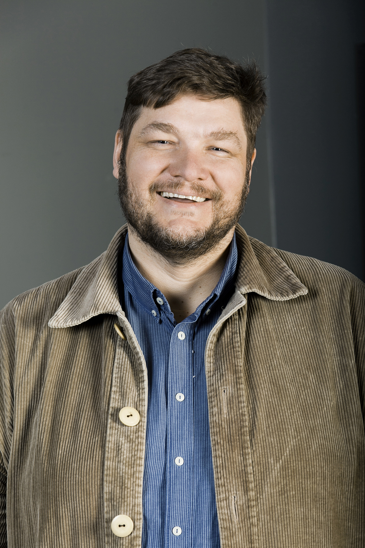 Graphic designer Kristjan Mändmaa.